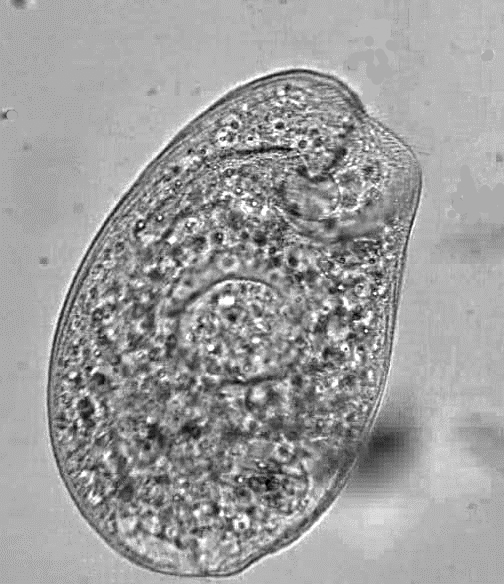 Climacostomum sp. with no chlorella. Possibly an aposymbiotic C. virens.